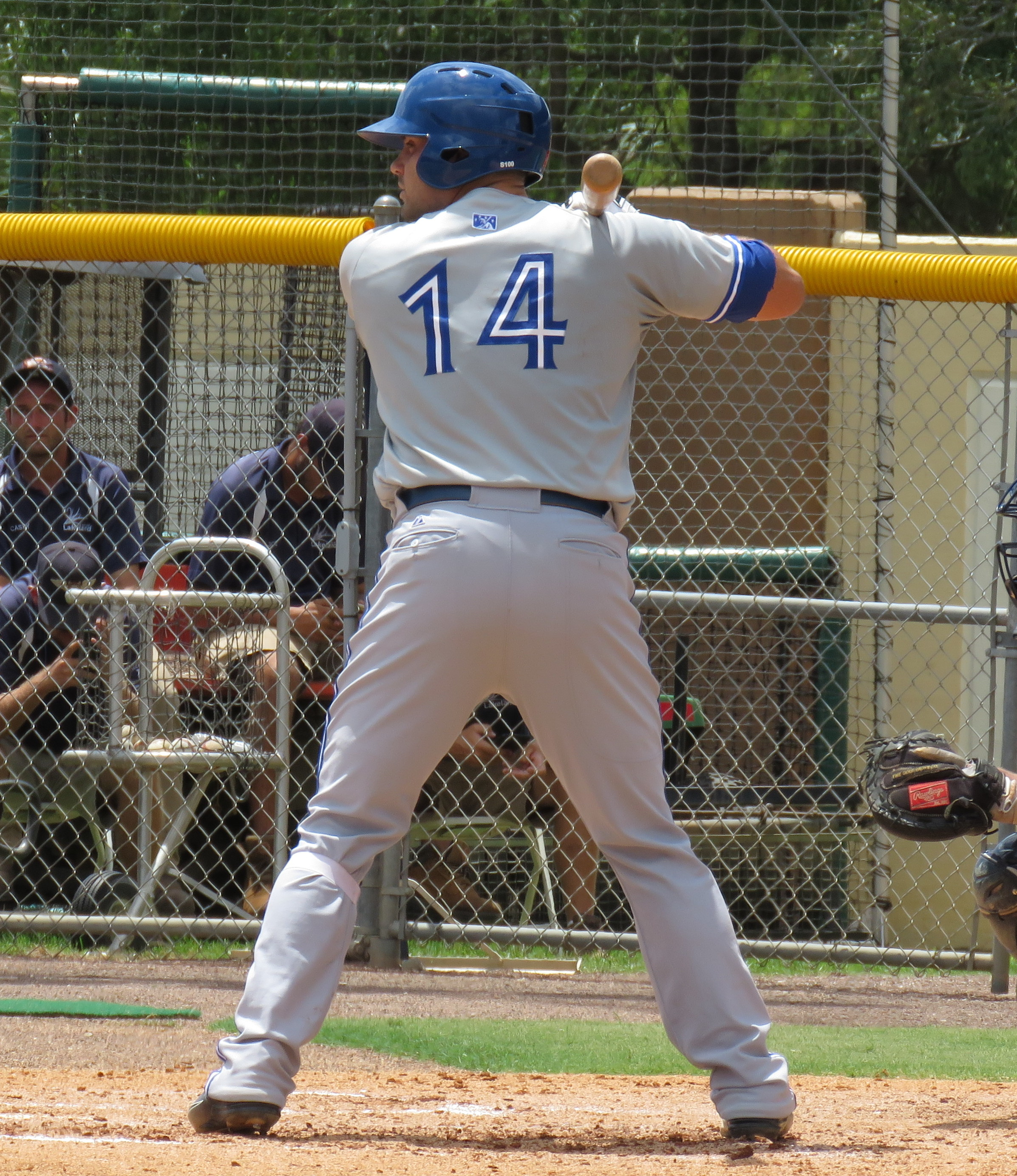 McBroom at bat